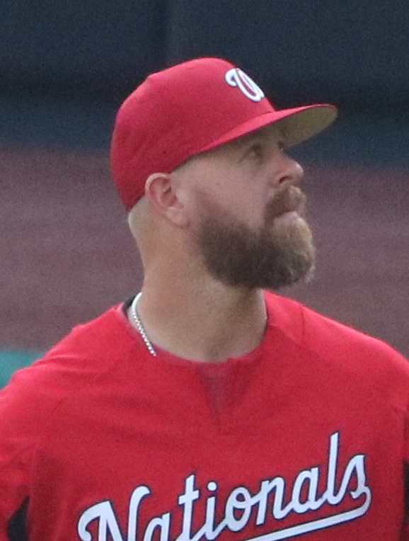 Justin Miller during warmups, July 13, 2018